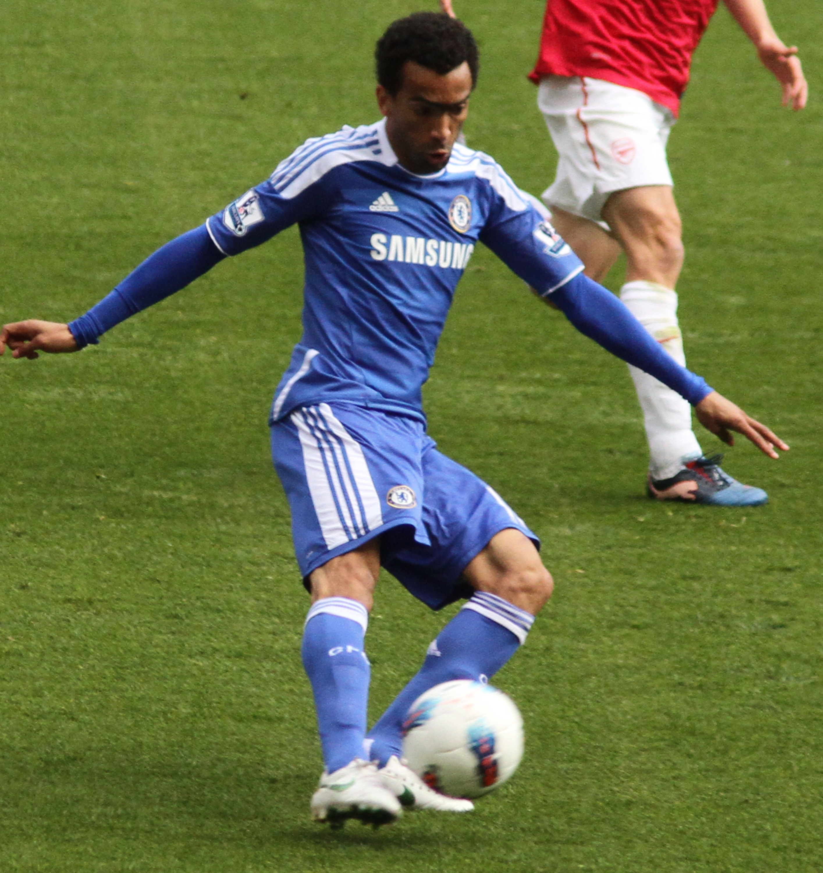 Bosingwa with Chelsea against Arsenal FC.